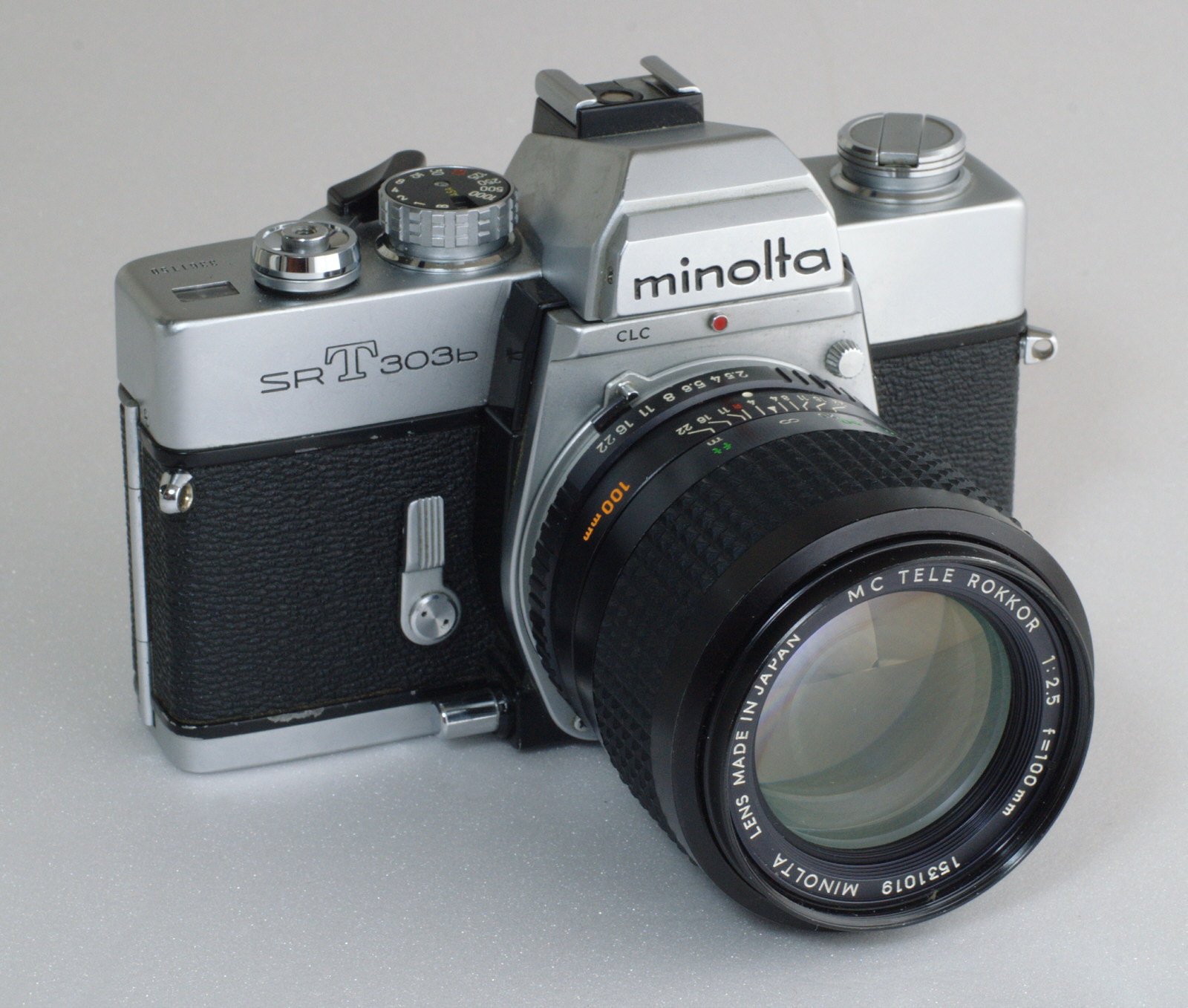 Camera Minolta SRT303b with lens MC Tele Rokkor 2.5/100 mm. The top model of the purely mechanically operating SRT-series of single-lens-reflex cameras made by Minolta.